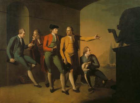 A Grand Tour Group of Five Gentlemen in Rome, group portrait. To the right of the guide, with a spaniel on his knee, is the future Richard Griffin, 2nd Baron Braybrooke. The others of the party are: John Staples MP (1736-1820), James Byres (1734-1817), Sir William Young, 2nd Bt, MP (1749-1815), and Thomas Orde-Powlett, 1st Baron Bolton of Bolton Castle (1746-1807).